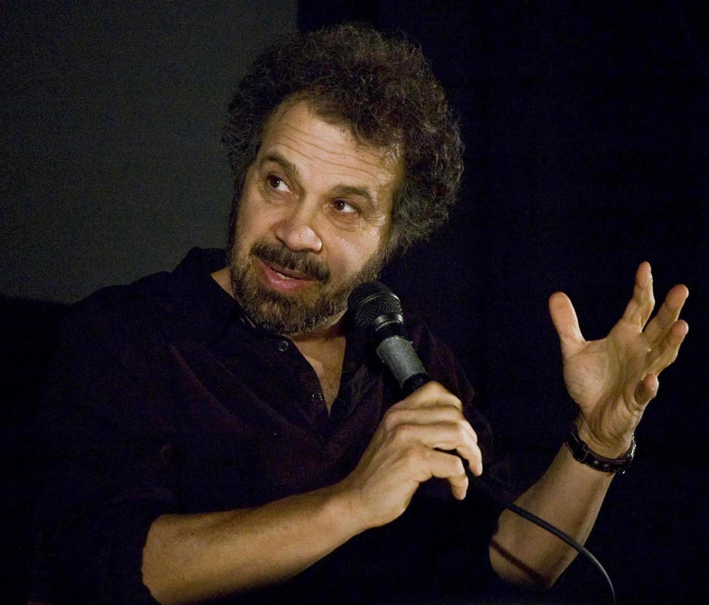 Edward M. Zwick (born October 8, 1952) is an American filmmaker and film producer. This photo was taken on November 20, 2008 during a Question & Answer session following a screening of the movie "Defiance" in Morristown, New Jersey.